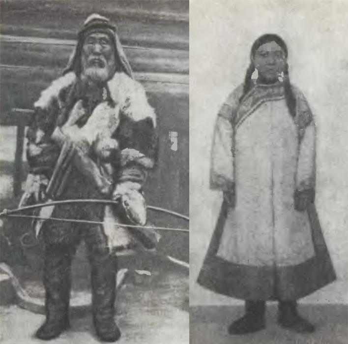 Ulch people in 1920s